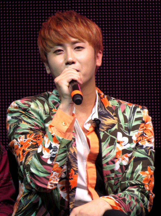 Heo Young-saeng during his fanmeeting held on August 20, 2013 at the Metropolitan Theatre in Mexico City.